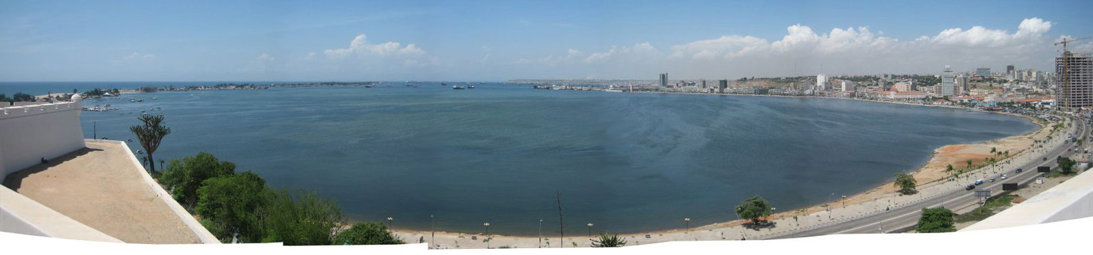 Luanda